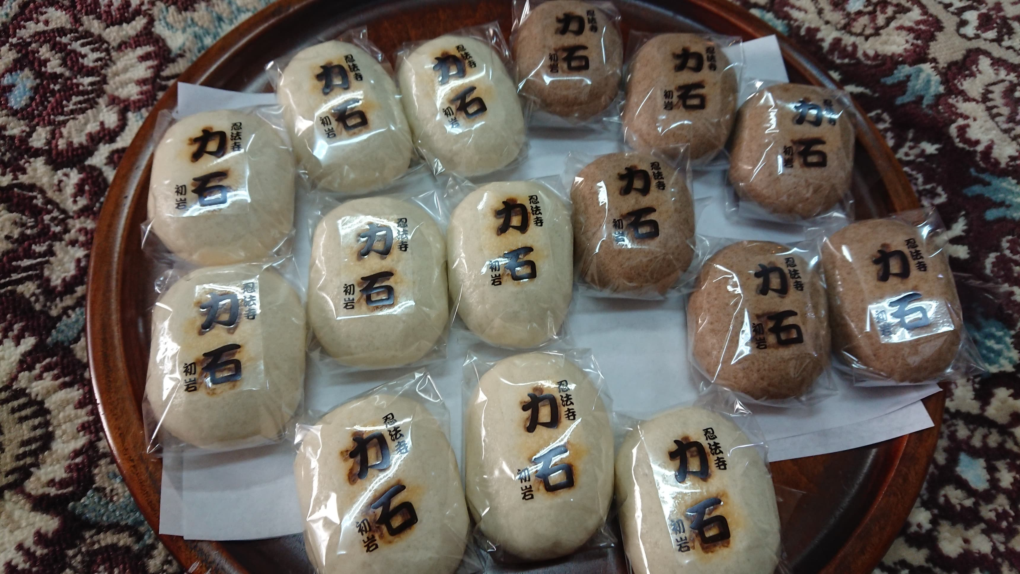 Japanese sweets. Chikaraishi Ninpoji Toyonaka